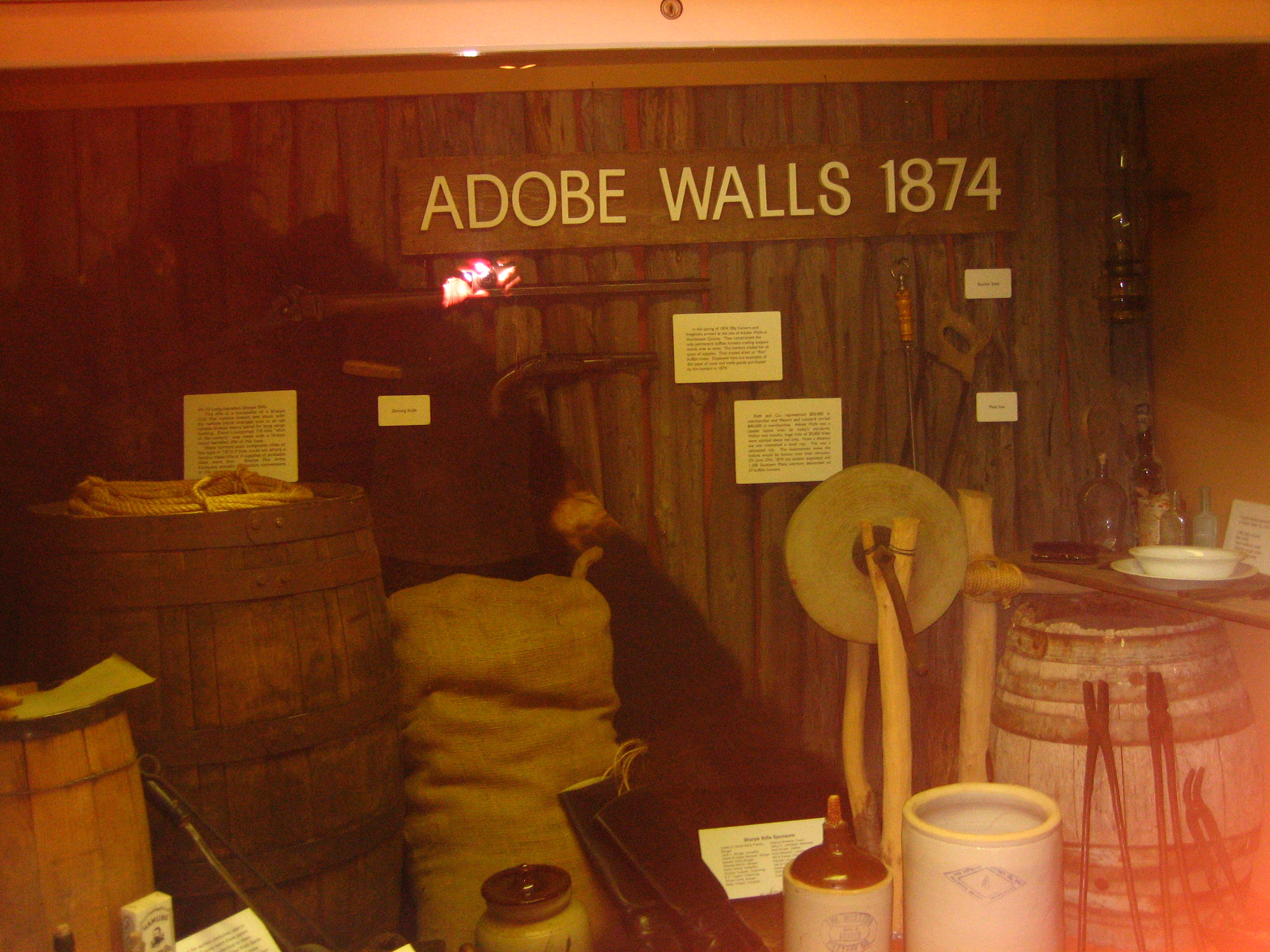 I took photo in July 2008.